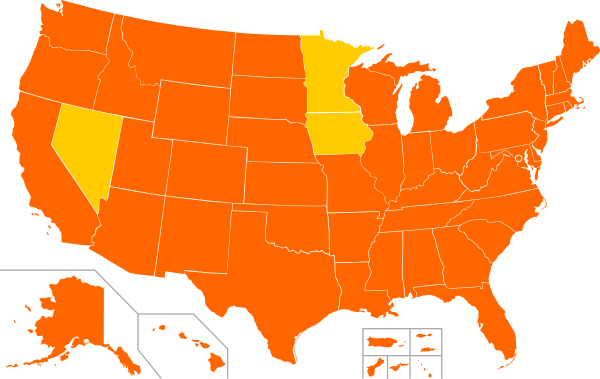 Republican Party presidential primaries results, roll call 2012